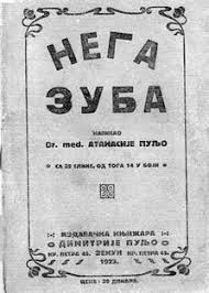 Cover page of the book “Dental Care” by Atanasije Puljo, 1923Srpski (latinica): Naslovna strana knjige dr Atanasija Pulja Nega zuba iz 1923.